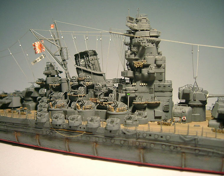 Details of the 1/700 scale model of IJN Battleship Yamato - Best of Show in Australian Model Expo 2008